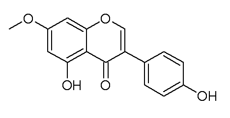 chemical structure of prunetin